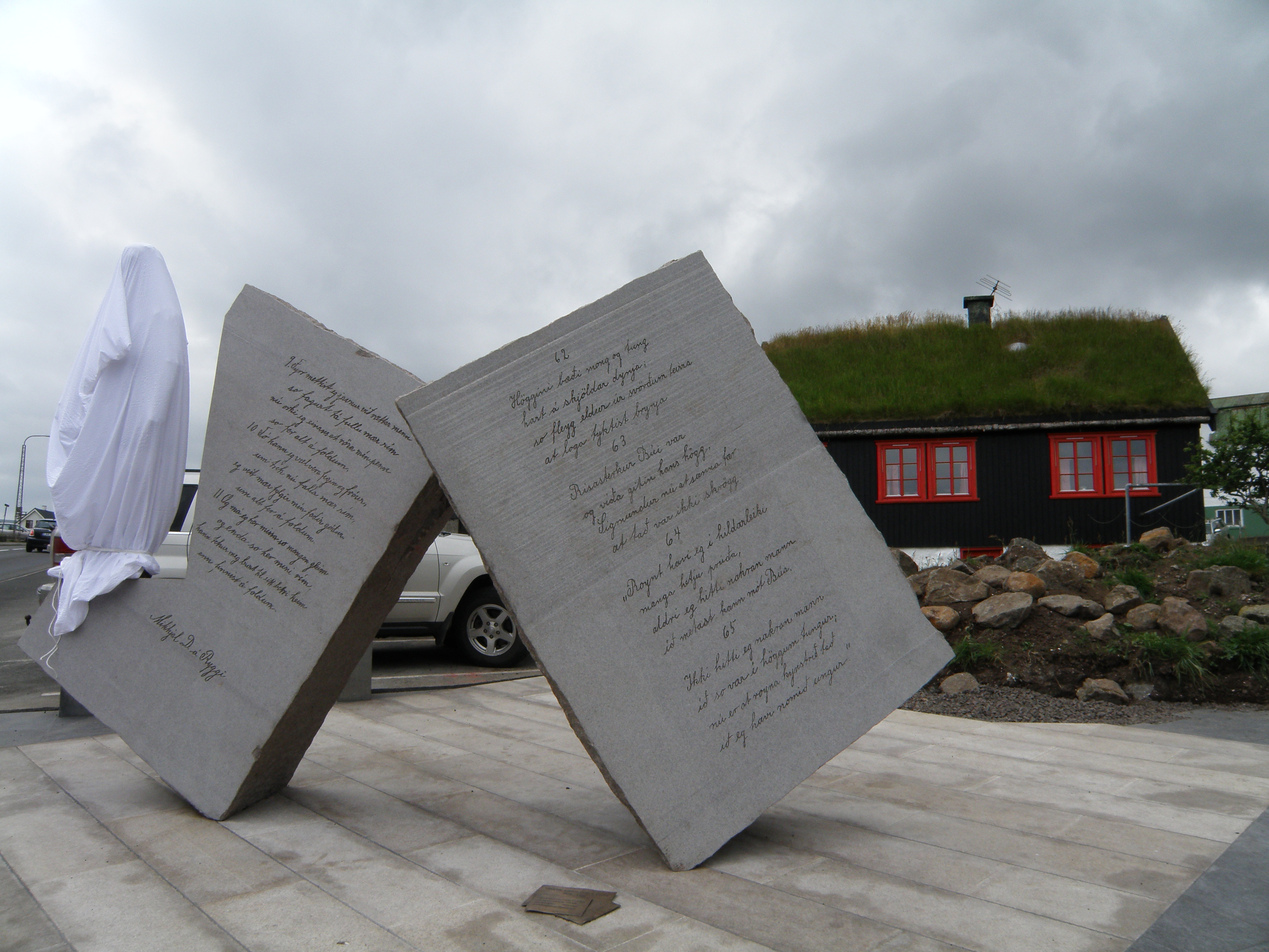 This monument was revealed on 10 July 2011. This photo was taken on the day before on 9 July 2011 at the Vestanstevna village festival. The monument was made in honour of Mikkjal á Ryggi, a Faroese poet (born 1879, died 1956). The monument is in the village Miðvágur in the Faroe Islands. Føroyskt: Minnisvarði til minnis um skaldið Mikkjal á Ryggi. Minnisvarðin varð avdúkaður 10. juli 2011, henda myndin varð tikin dagin fyri hin 9. juli 2011 á Vestanstevnu.